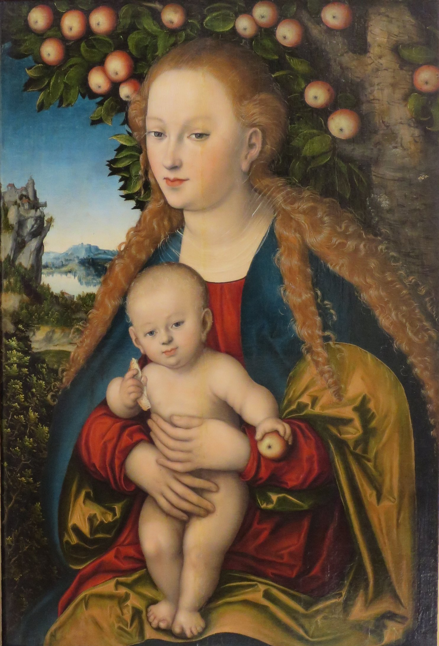 The Child Christ helds bread and apple in his hands. The apple is the symbol of the original sin, the bread (the body of Christ) of the redemption. The Virgin is considered to be the second Eve redempting the sin of the first.